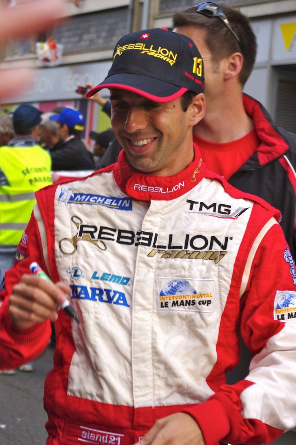 Neel Jani at the Le Mans 24 Hours 2011 Drivers' Parade